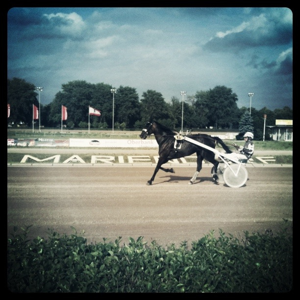 harness racing track of Berlin-Mariendorf